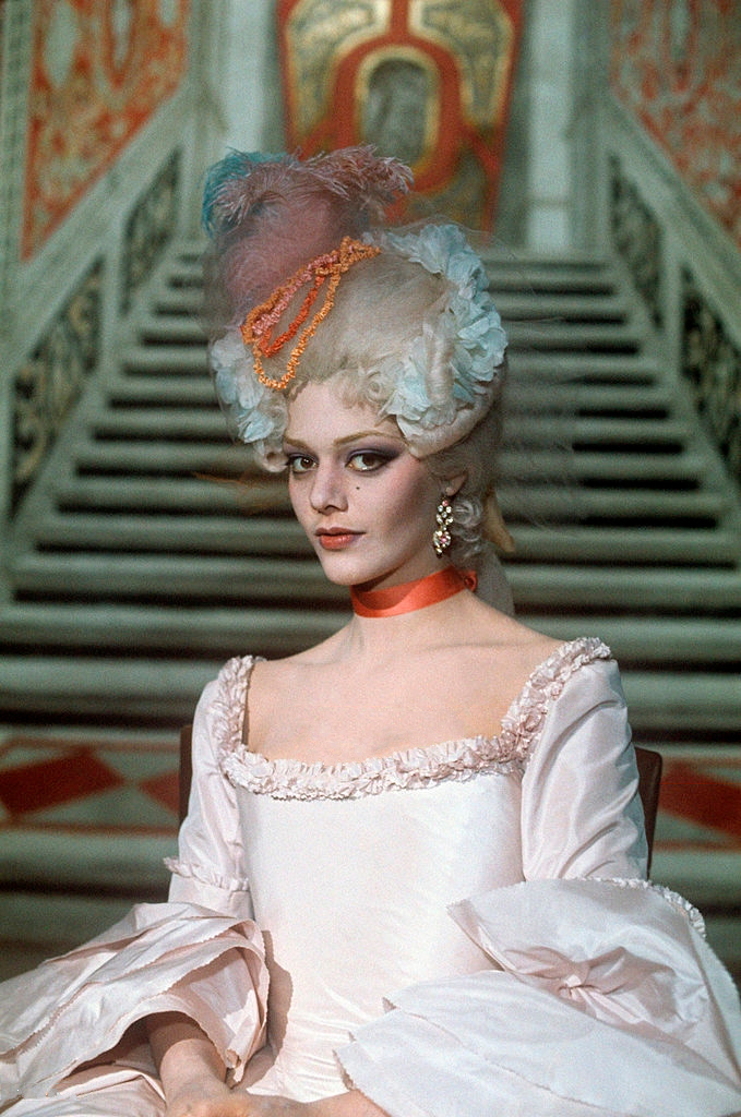 American actress Tina Aumont (Marie Christine Aumont) acting in the film Fellini's Casanova. 1976.